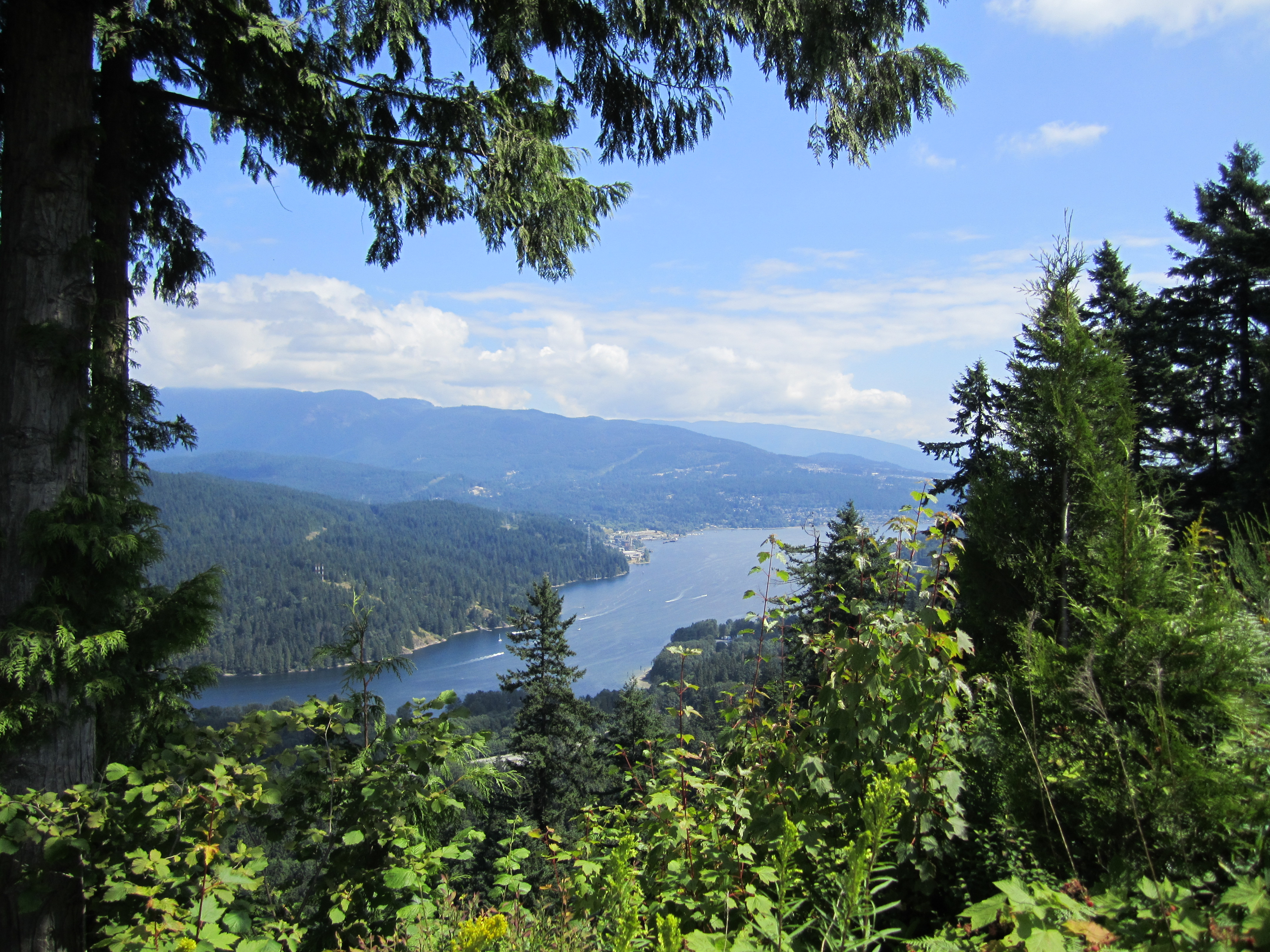 Taken August, 2011 on a sunny day